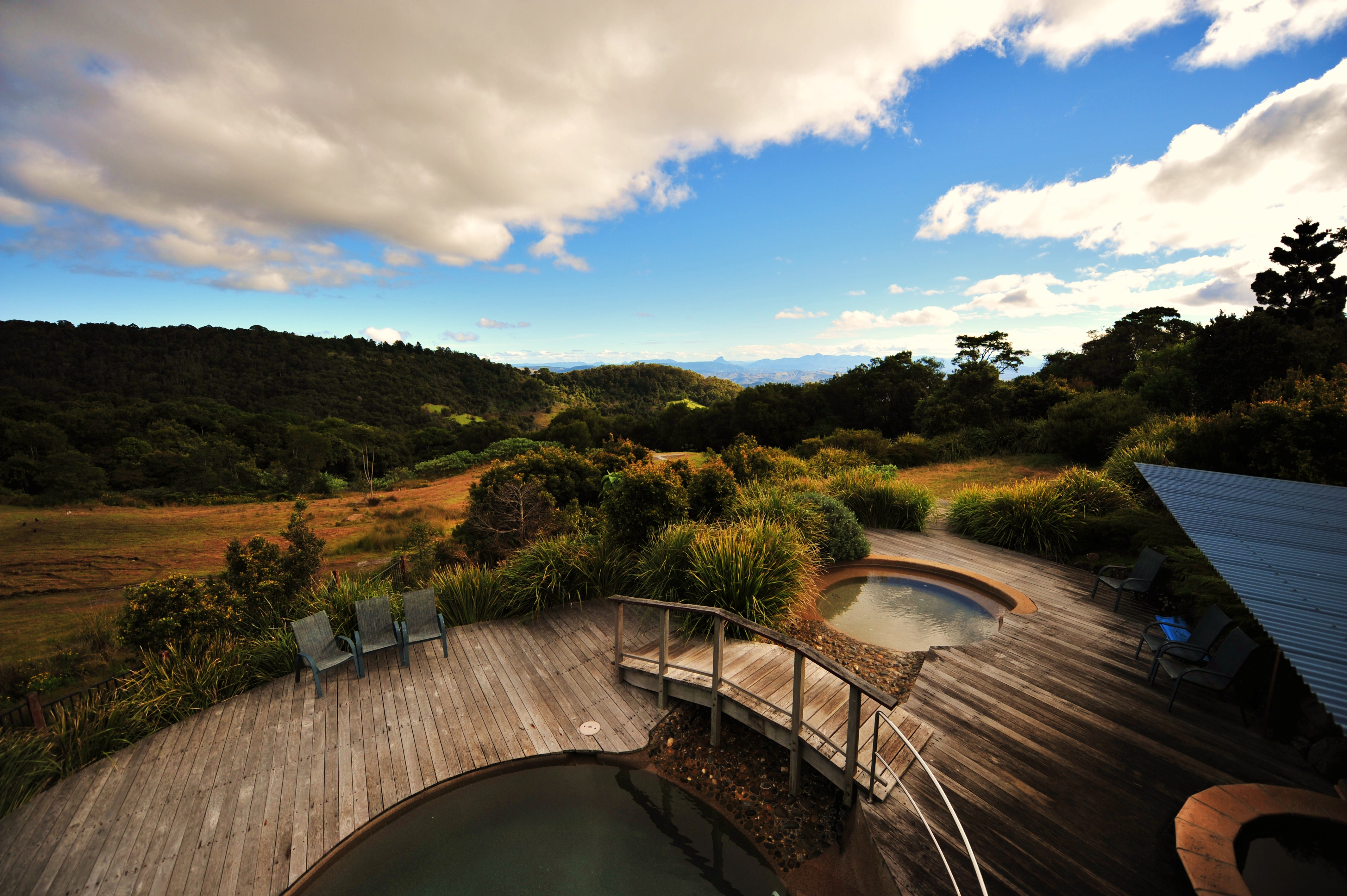 A view from O'Reilly's Rainforest Retreat, Queensland, Australia.